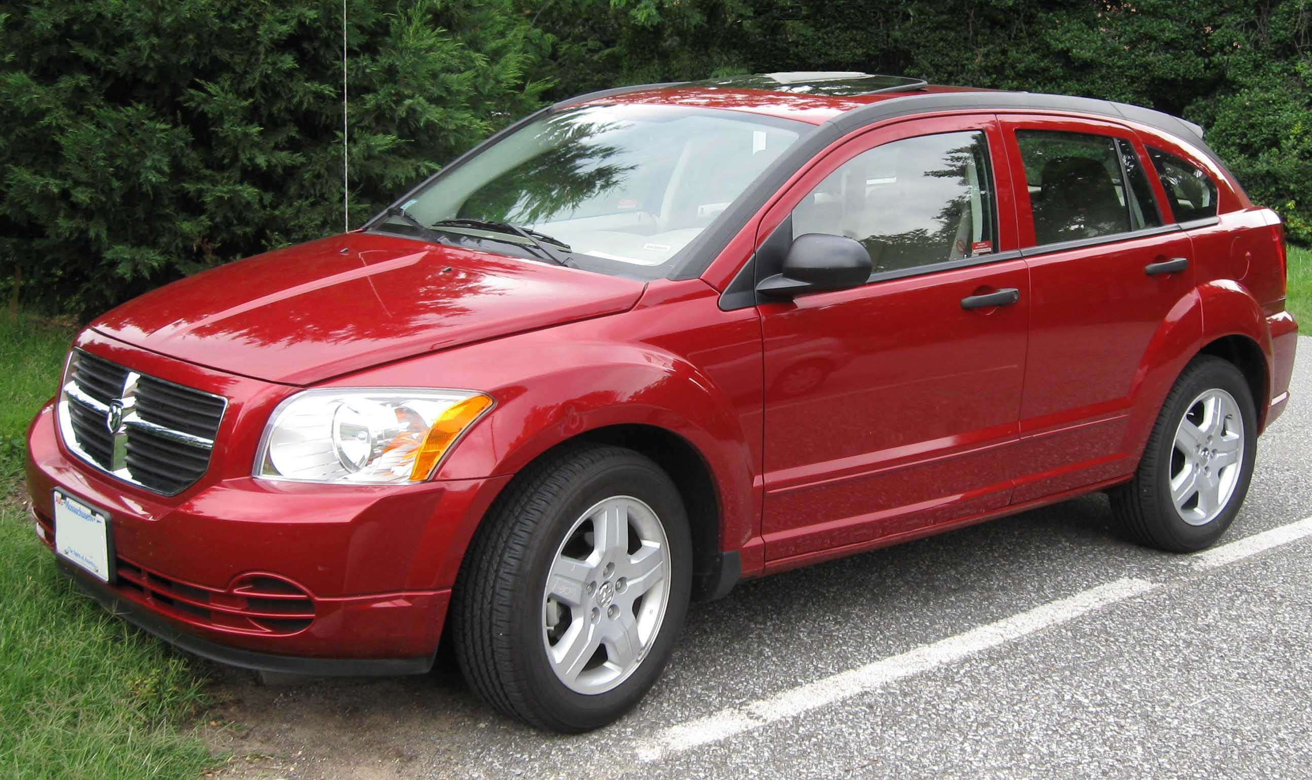 2007-2008 Dodge Caliber photographed in College Park, Maryland, USA.